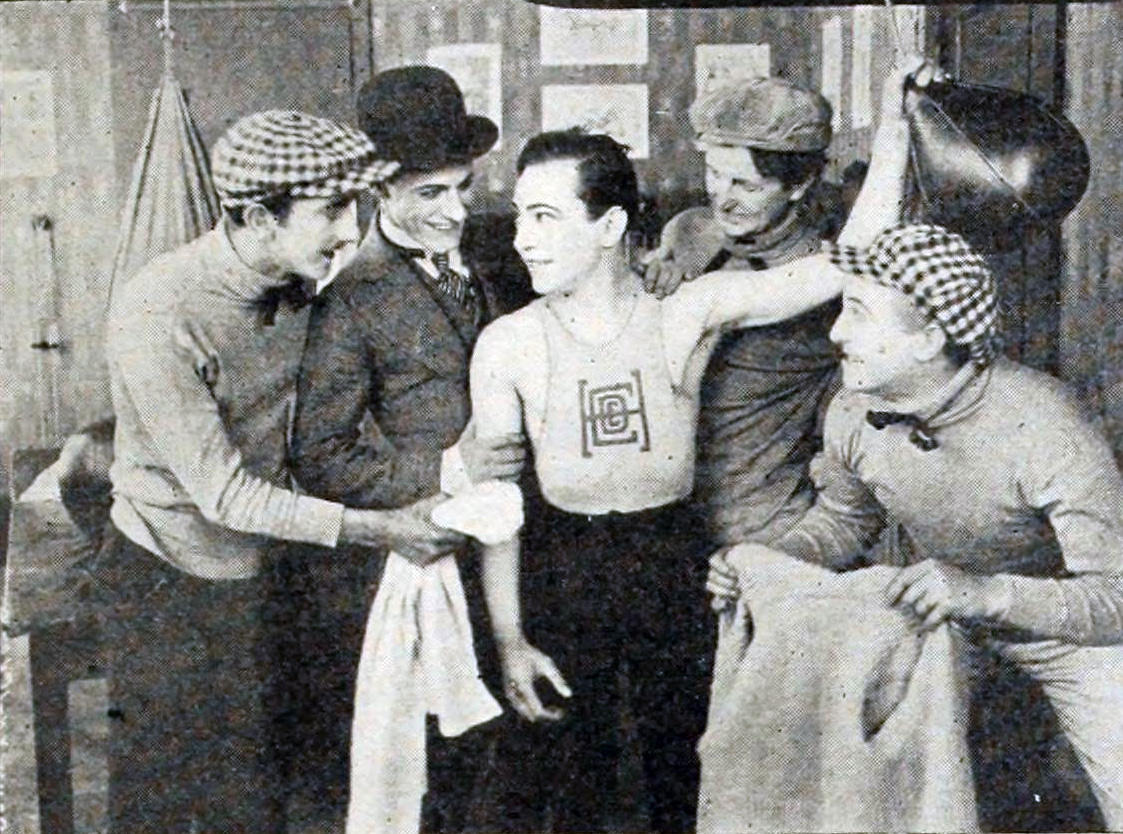 Illustration of an article in The Moving Picture World